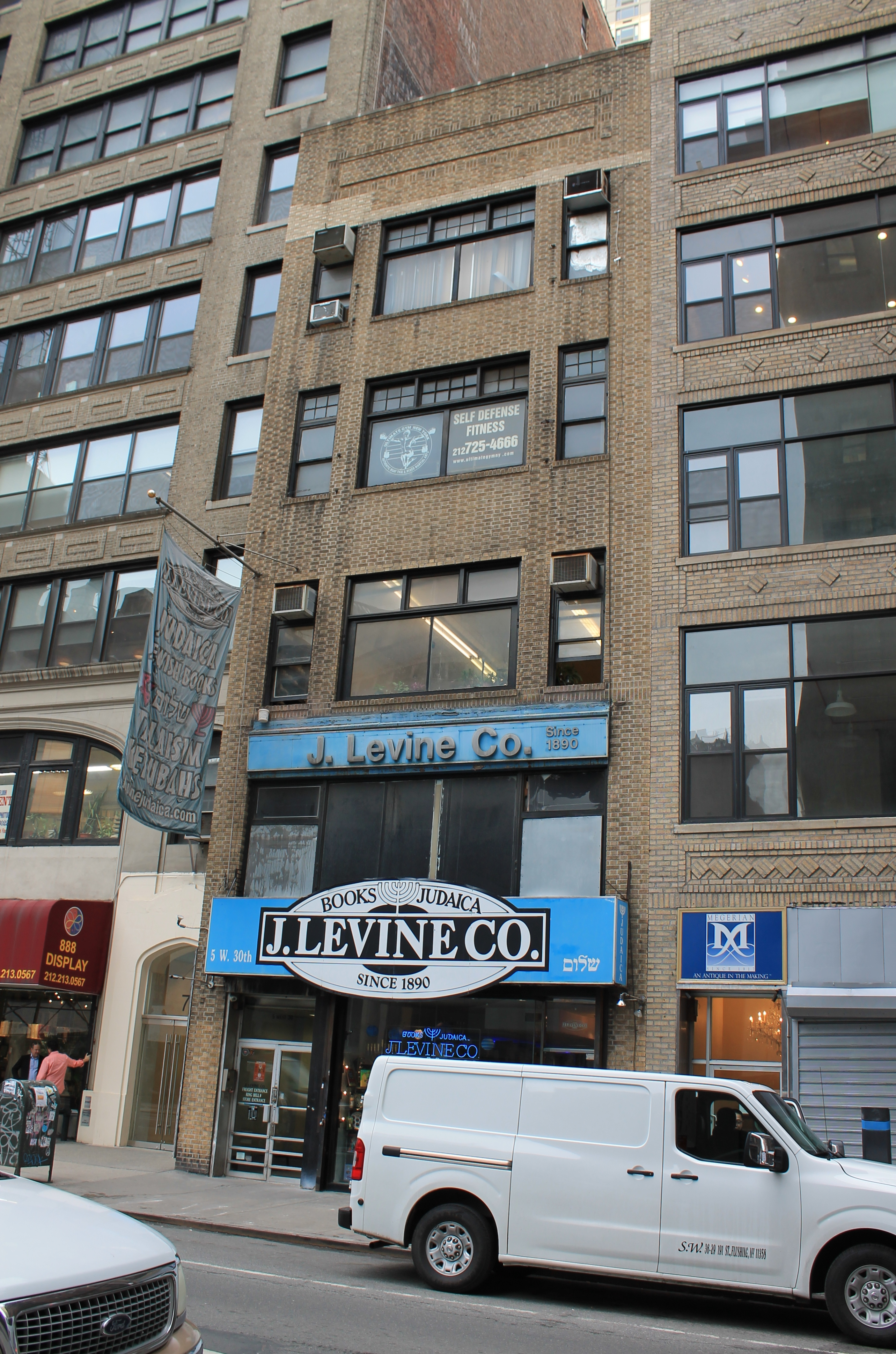 5 West 30th Street building for J. Levine Books and Judaica.